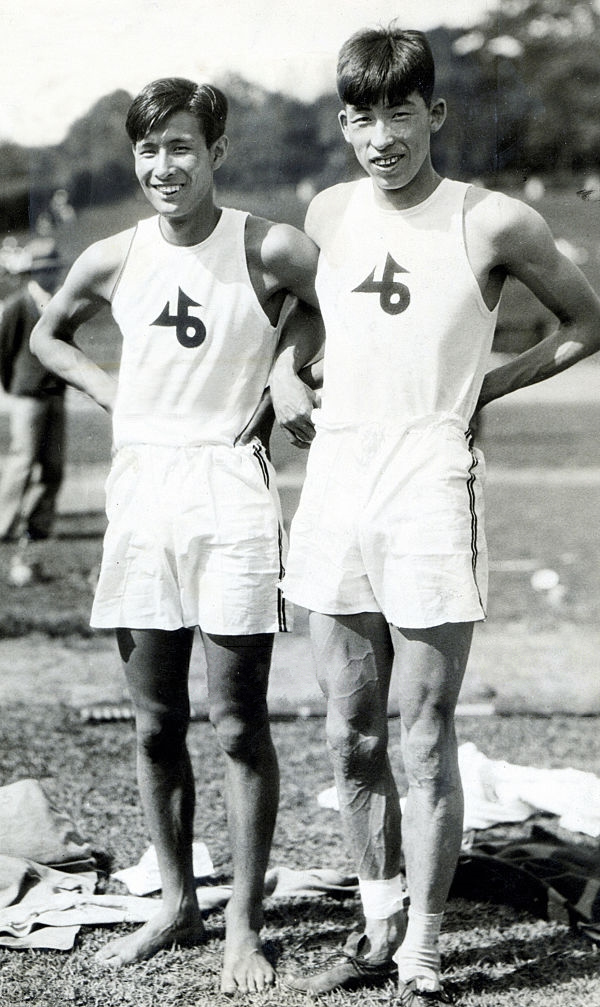 Sueo Ōe (left) and Shuhei Nishida